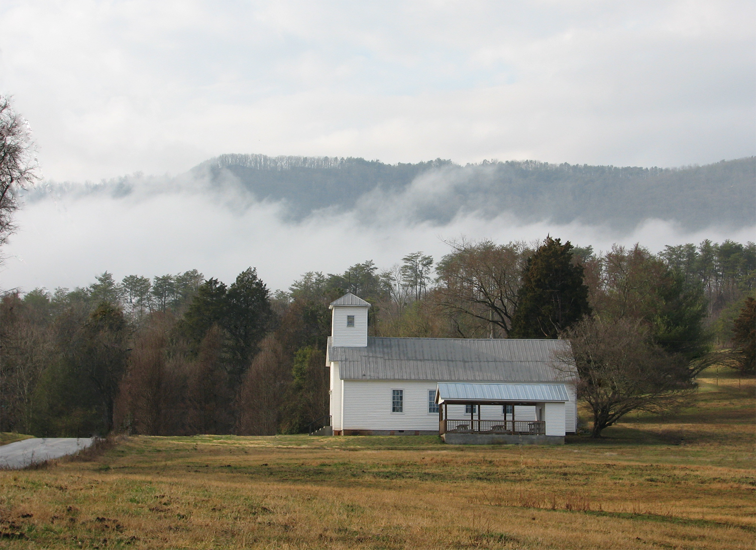 Author is user, Snipehunt from personal collection.